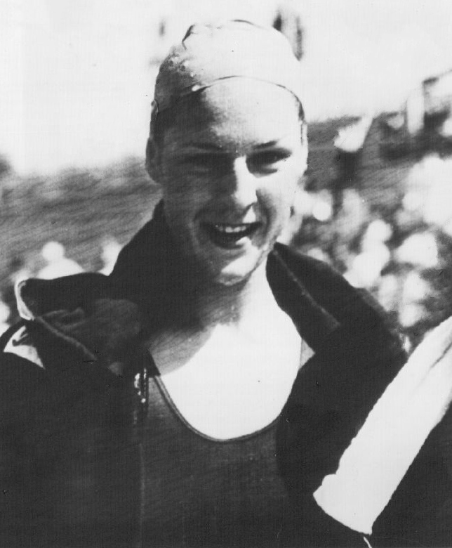 1952 Helsinki Olympic Swimmer Daphne Wilkinson Press Photo